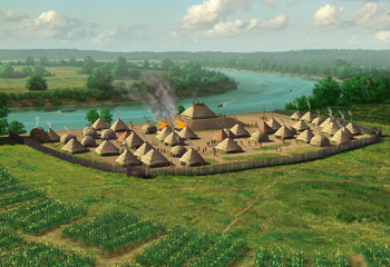 Artists conception of the Annis Mound and Village Site (15BT2, 15BT20, & l5BT21) circa 1250-1300 CE. Annis is a Middle Mississippian culture archaeological site located on the bank of the Green River in Butler County, Kentucky. It was occupied from about 800 CE to about 1300 CE. The site consisted of a Mississippian culture platform mound measuring 33.5 meters (110 ft) square by 3.7 meters (12 ft) in height, and domestic structures surrounded by an encircling defensive palisade. Just outside the northern palisade was a much older circular burial mound from the Woodland period known as the Annis Sand Mound (15BT21), measuring about 1 meter in height and approximately 35 x 30 meters in diameter. Agriculture was based on the cultivation of maize as a staple.